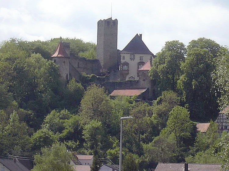 The castle of Neidenstein, Germany